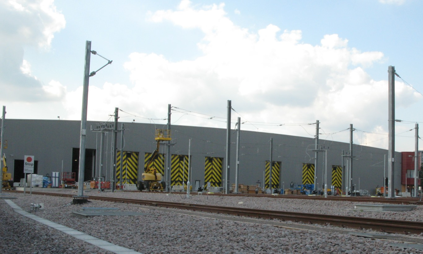 The new depot under construction for MTR Crossrail's Elizabeth Line trains which will soon be taking over local services out of London Paddington. It is built on the site of the old Great Western Railway steam locomotive shed at Old Oak Common.